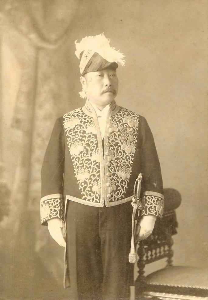 Portrait of Teizo Iimori, Doktor der philosophie